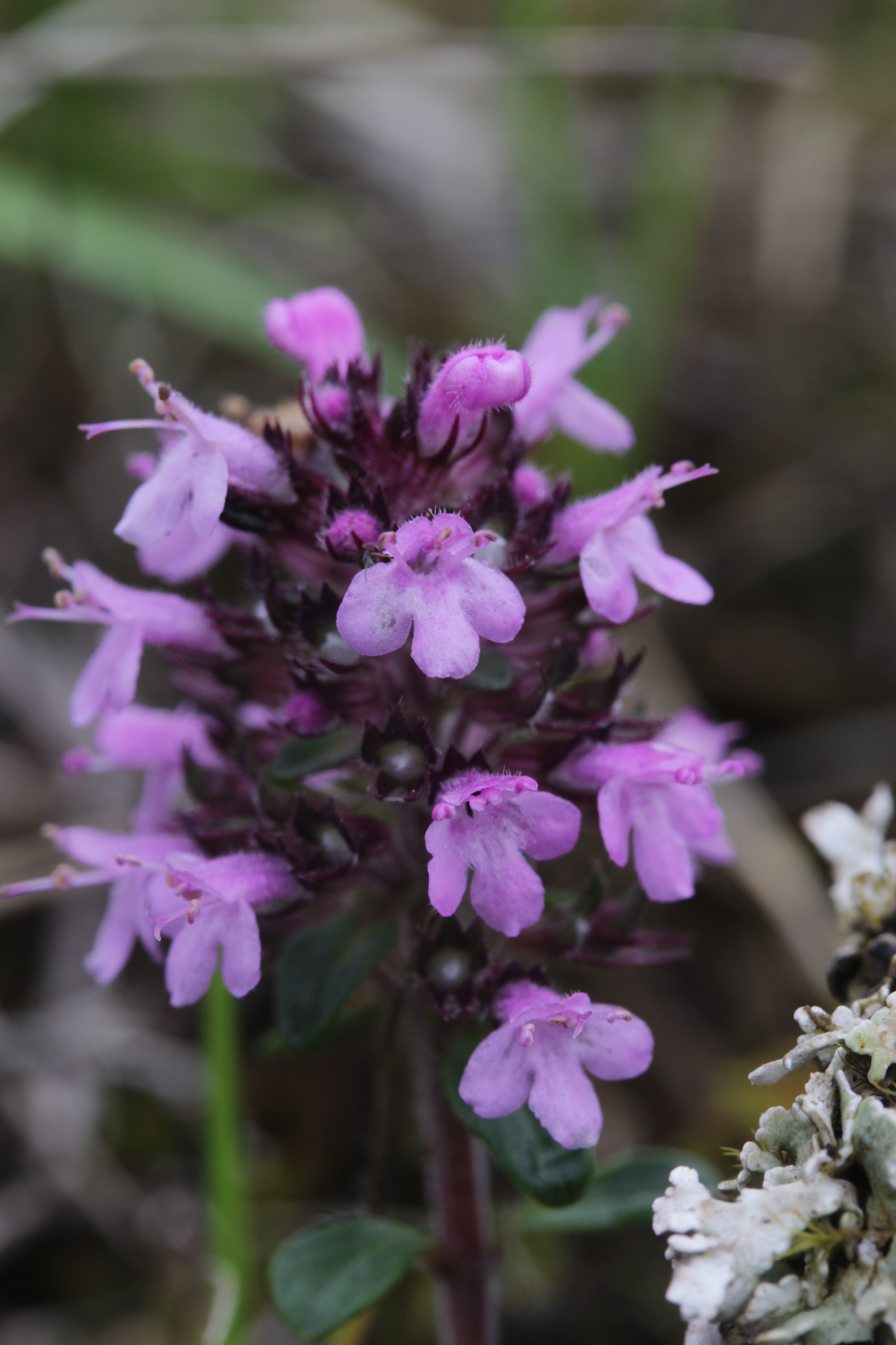 Mother of Thyme - Thymus praecox